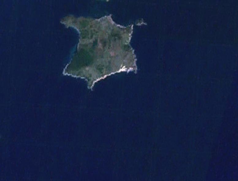 Reyneke Island, Primorsky Krai